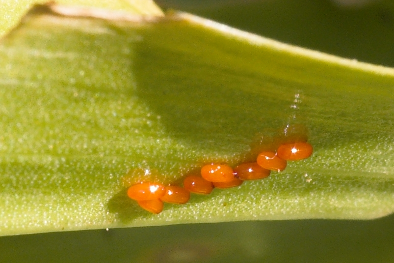 eggs of Lilioceris lilii